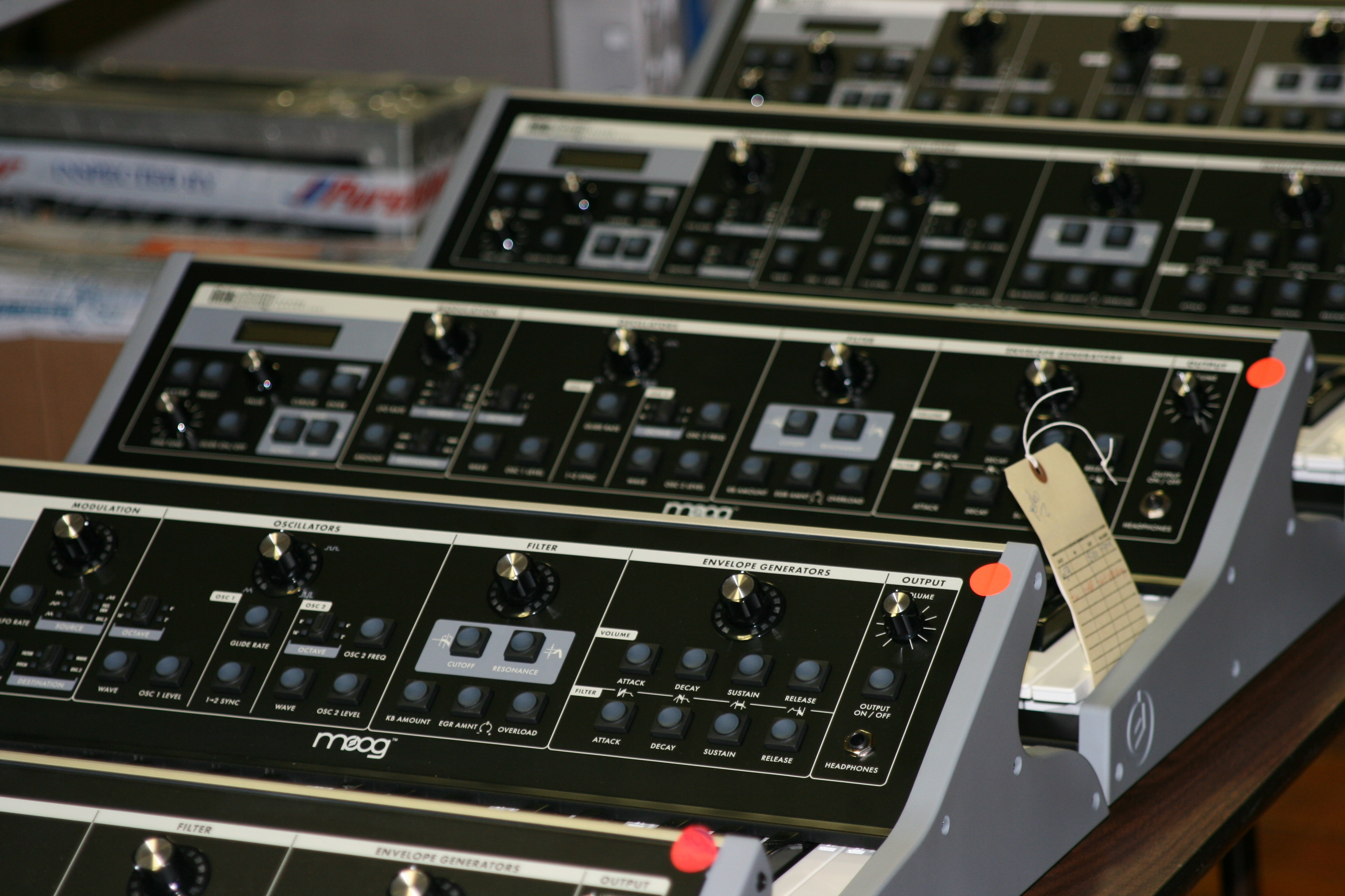 Line of Little Phatty's photos by hyreone@Flickr Hyreone says Line of Little Phatty's all in a row. Little Phatty production was going on that day - producing 15 - 20 units per day. Some workers were sick, so no Voyager production that day... Sound room pic near the end... With as many knobs as the voyager has, there was little time left for the little phatty or the moogerfoogers...